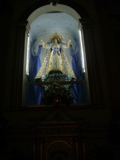 Nuestra Senora Dela Asuncion , Patron Saint of the people of Sta. Maria , in the province of Ilocos Sur